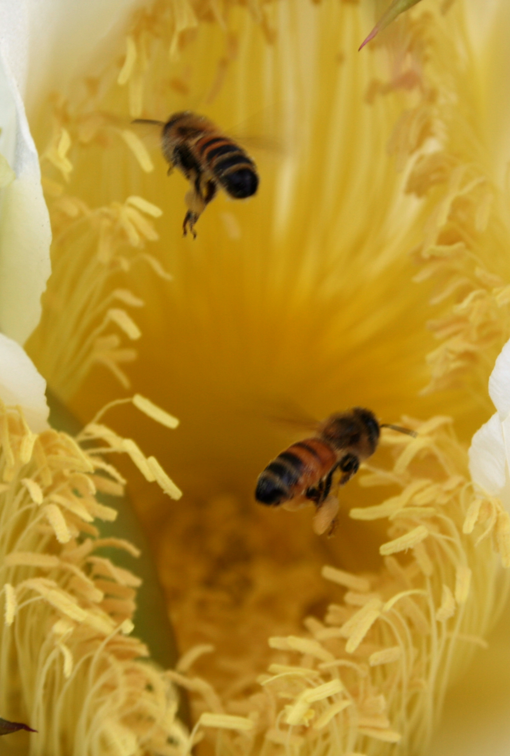 Two honey bees are collecting pollen from Night-blooming cereus, paniniokapunahoa, papipi pua (Cactaceae)